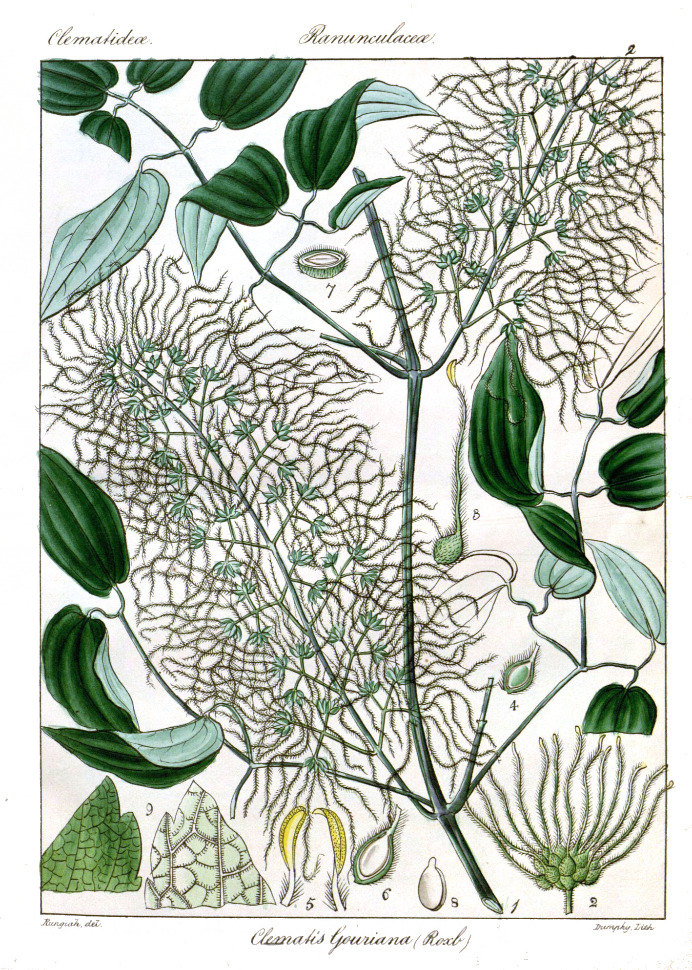 Clematis gouriana